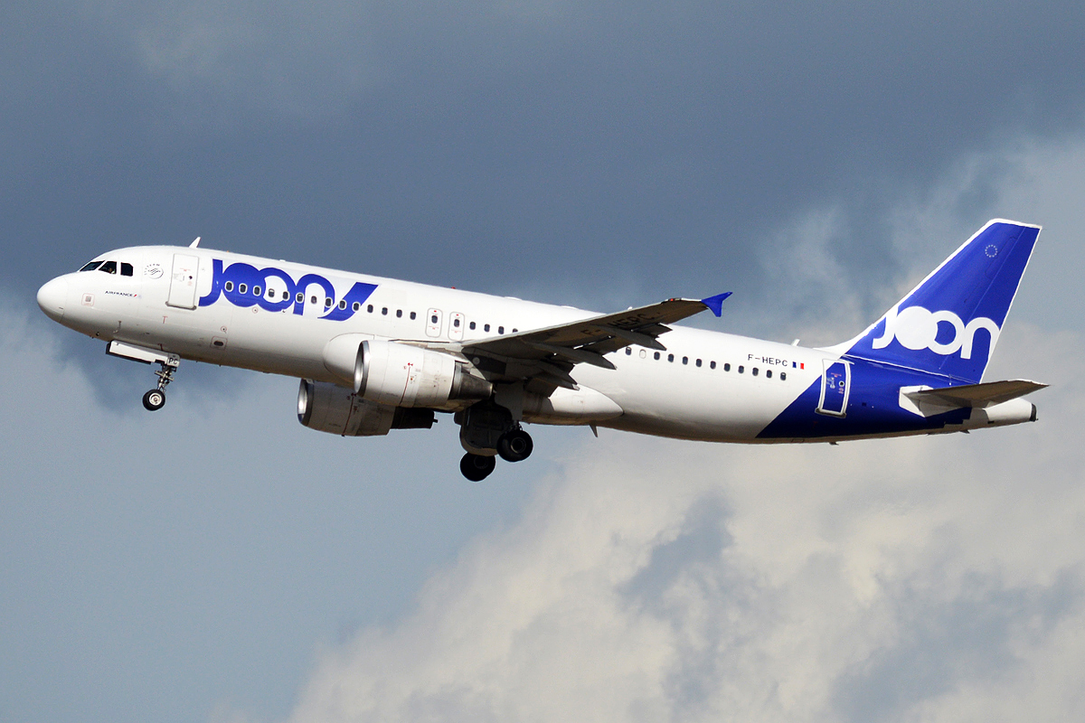 JOON, F-HEPC, Airbus A320-214